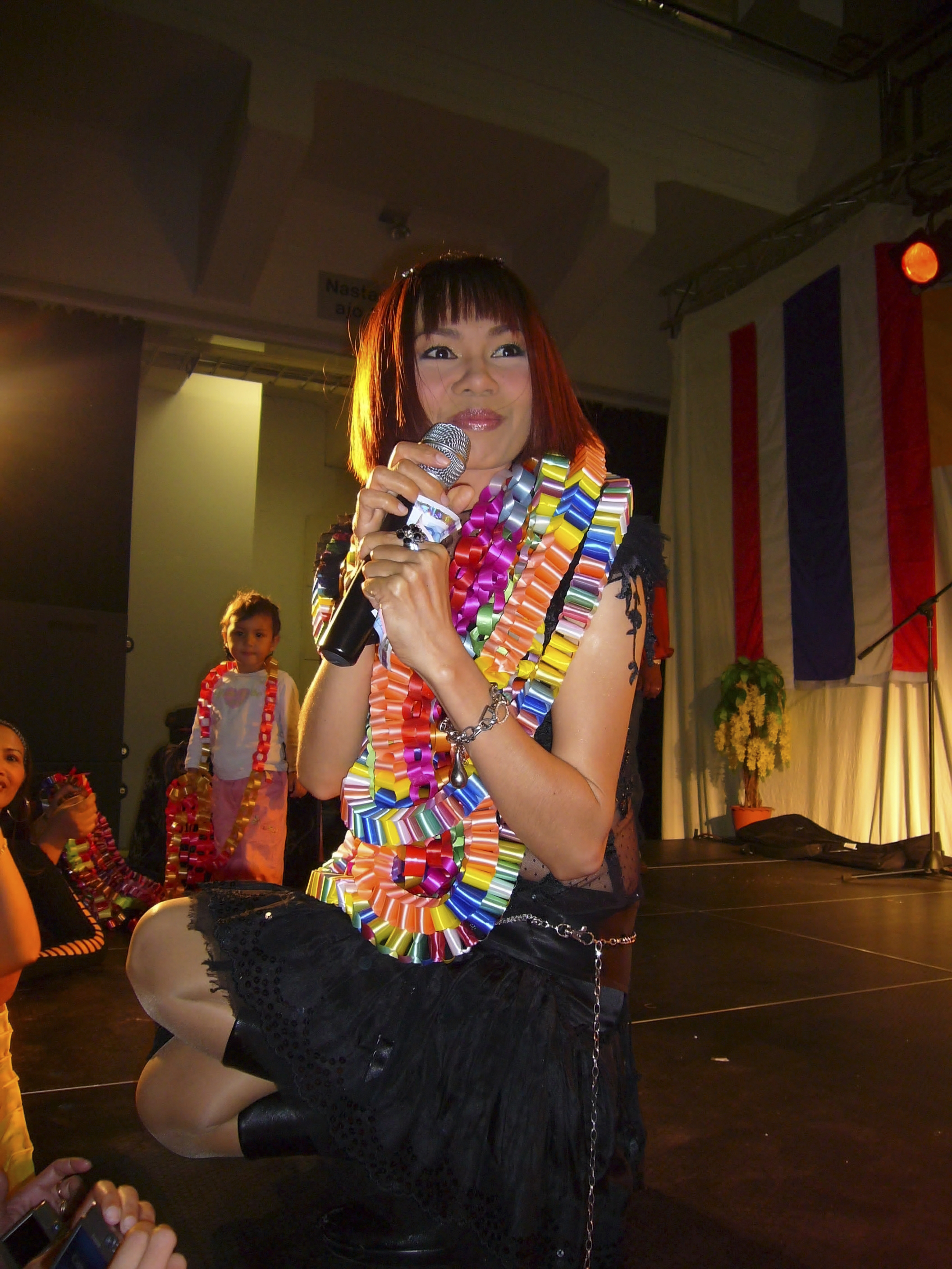 Thai Mor Lam singer Jintara Poonlarb giving a concert in celebration of Visaka Bucha Day and for the benefit of the Helsinki Buddhist Wat Building Project at the old Cable Factory (Kaapelitehdas), Helsinki, Finland, on 26th May 2007. Photograph courtesy of mr. Mika Toropainen.